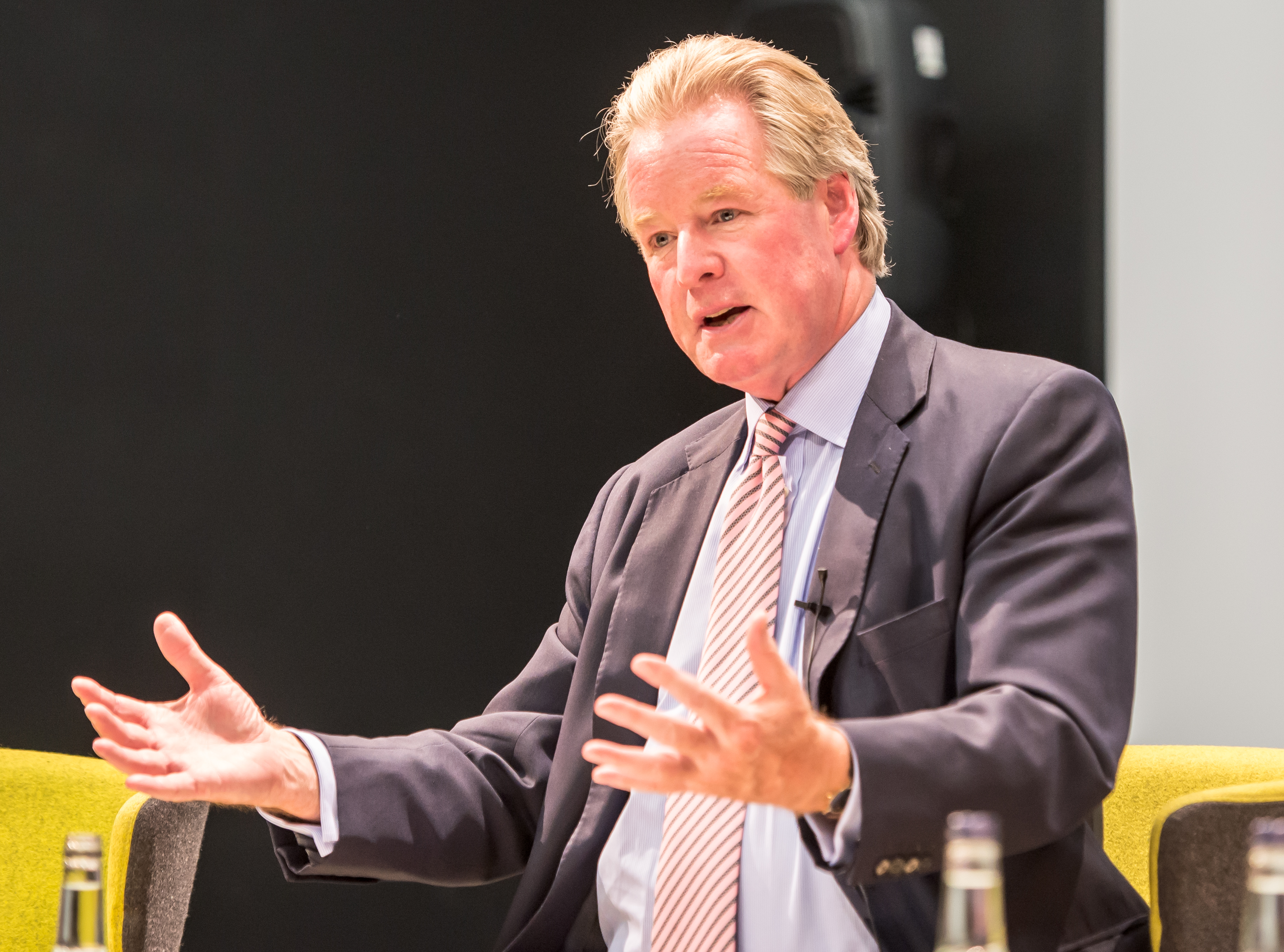 David Sheepshanks speaking at Salford Business School’s ‘Beautiful Game: Ugly Business’ football business expert panel debate at the University of Salford’s MediaCityUK campus last night (Tuesday 9 September)